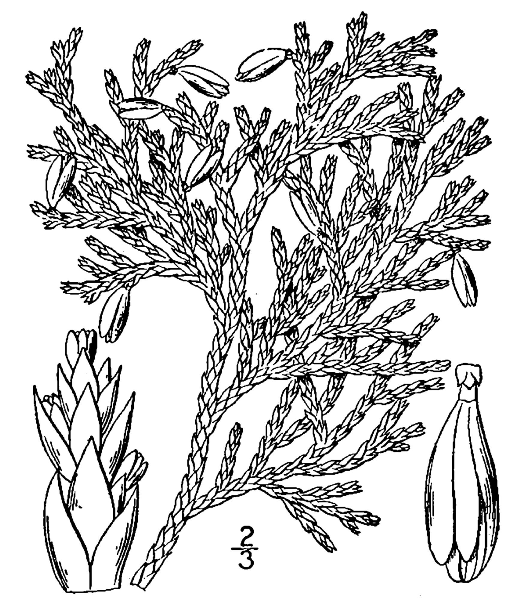 Arborvitae. Drawing.